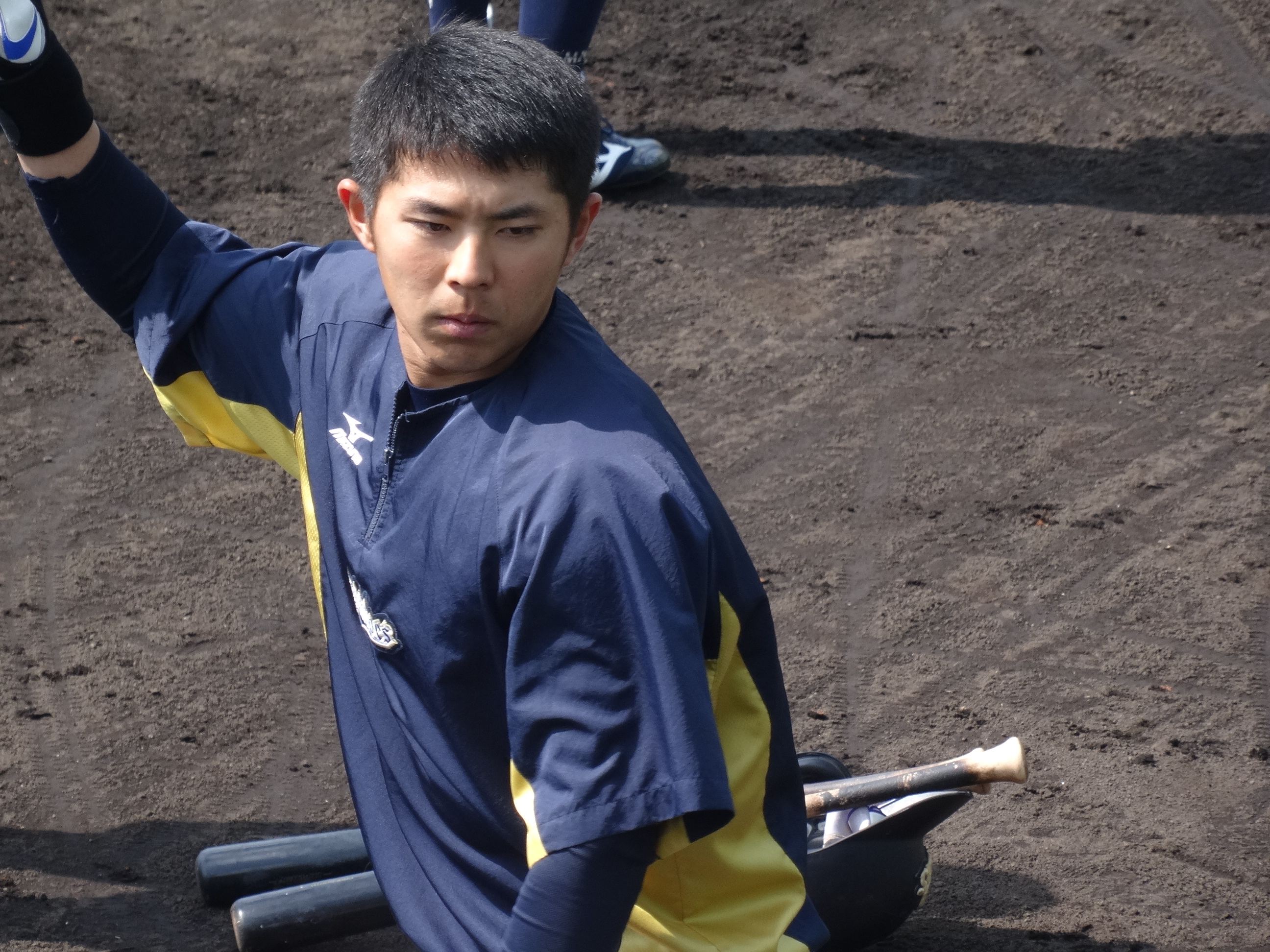 Ken'ya Wakatsuki, catcher of the Orix Buffaloes, at Hanshin Naruohama Baseball Ground